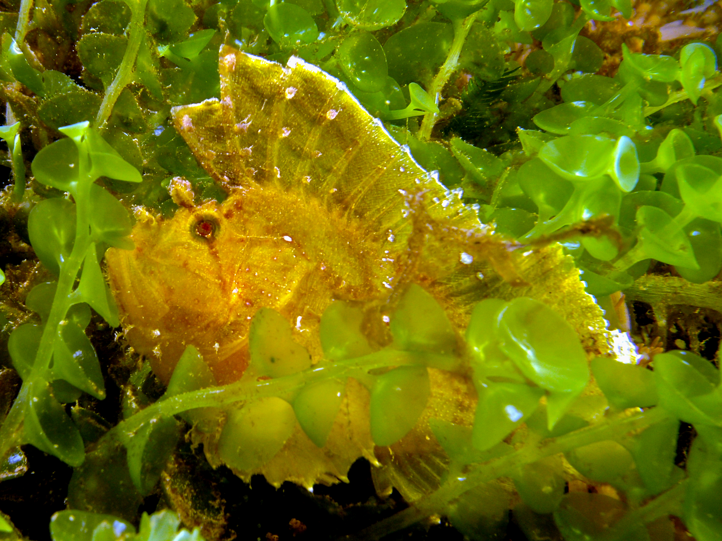 Taenianotus triacanthus (Leaf scorpionfish) in Caulerpa algae